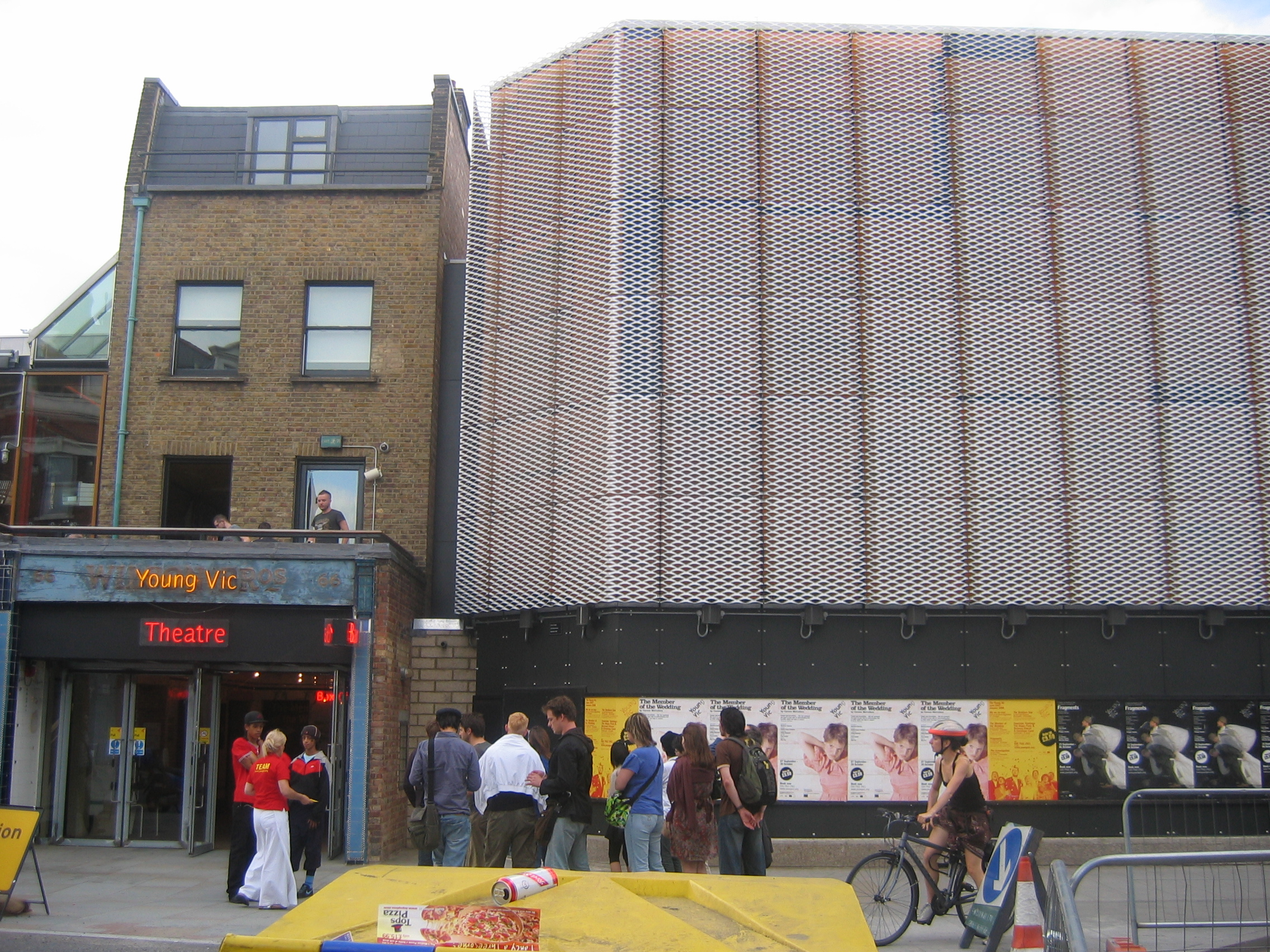 Young Vic theatre, RIBA award winner, The Cut, London